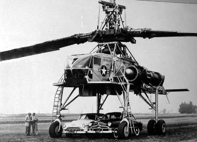 The gigantic XH-17 with two cars parked under it.